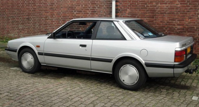 1983 Mazda 626 2.0 Coupé automatic. Amazing original condition.